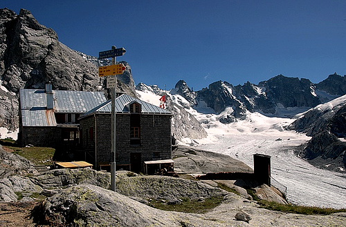 Capanna Forno, Graubünden